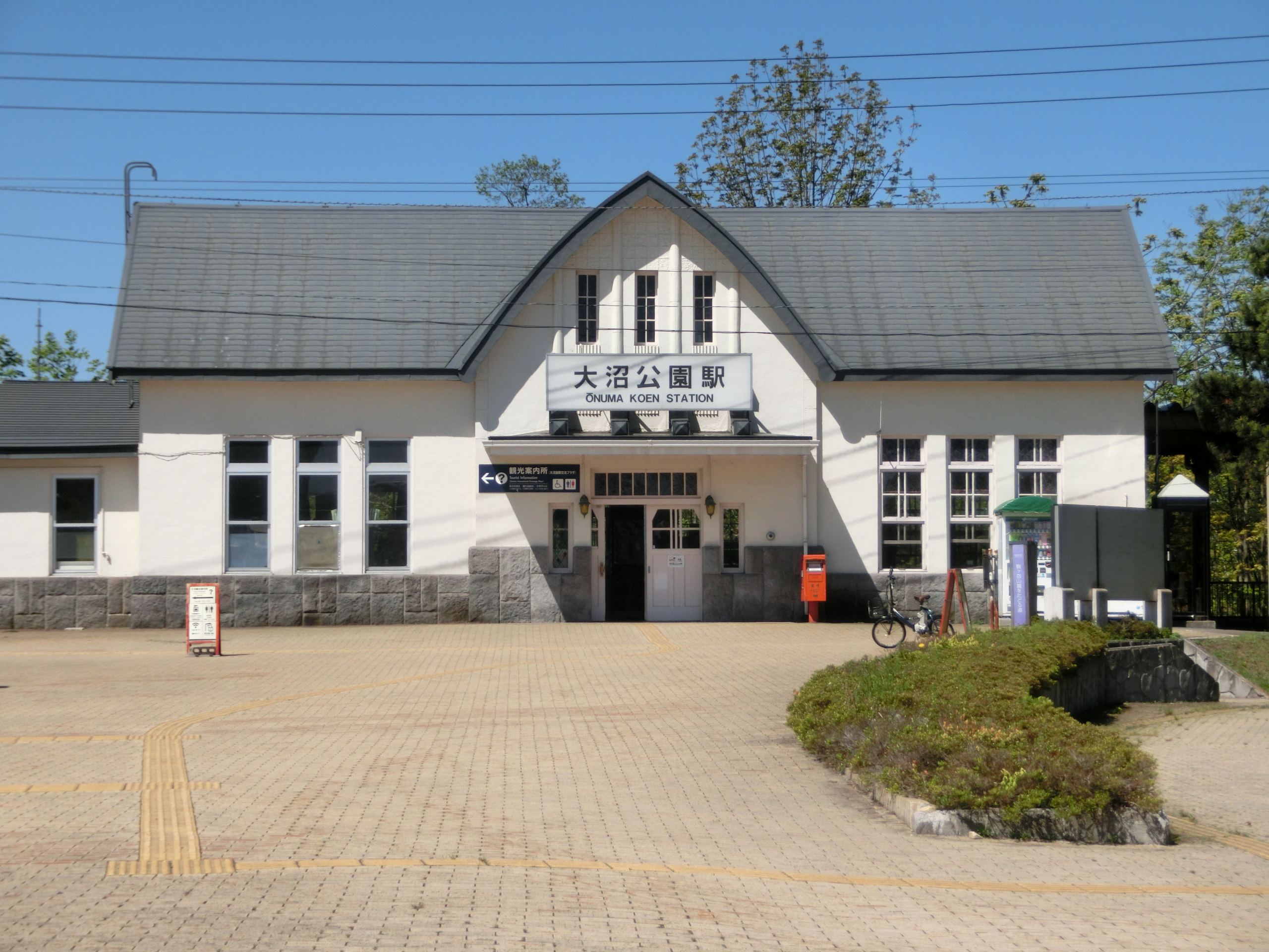 Onuma-Koen Station